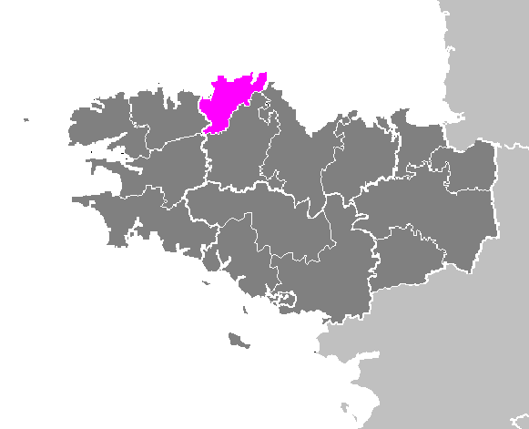 Maps of arrondissements and cantons of France: Arrondissement de Lannion.PNG